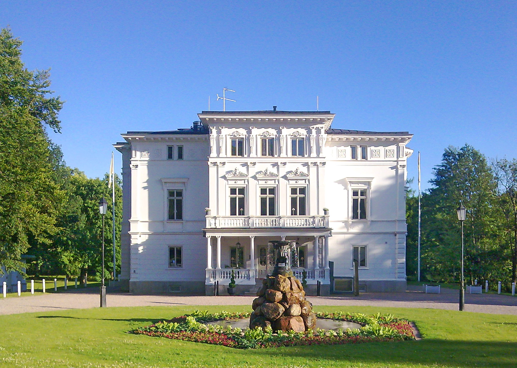 Villa Nolhaga, built 1879-80 in Italian renaissance style by Claes Adelsköld.